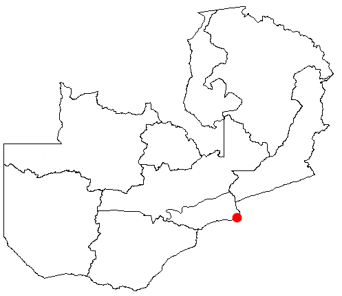 Map: Kanyemba in the lusaka province of Zambia